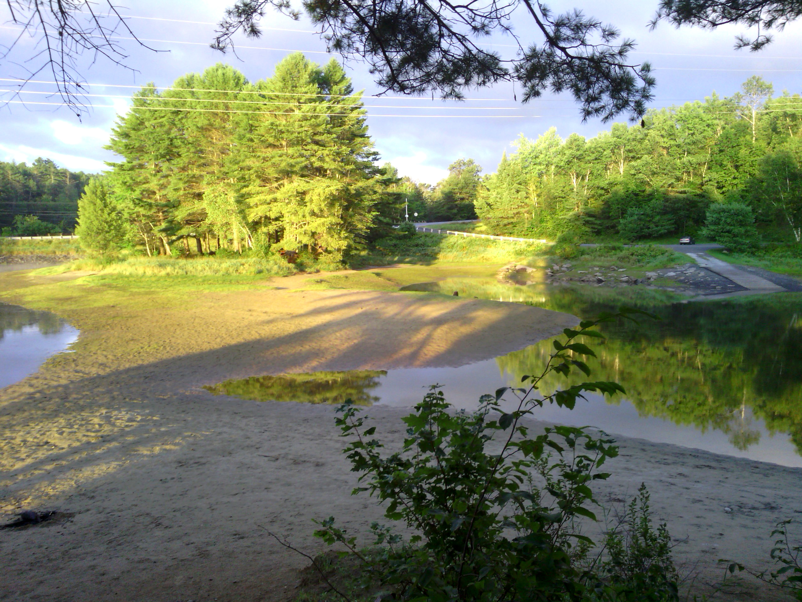 A self-taken photograph of the Pine Island area of Moore Reservoir (separated from the reservoir itself by a causeway) that is popular for boating and swimming. Photograph taken while at location.